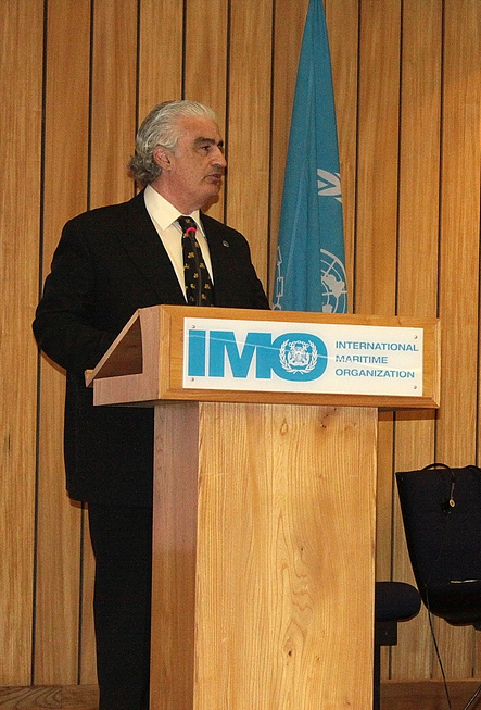 David Attard (born 1953), jurist from Malta, Professor of International Law; judge at the International Tribunal for the Law of the Sea (ITLOS) since October 2011